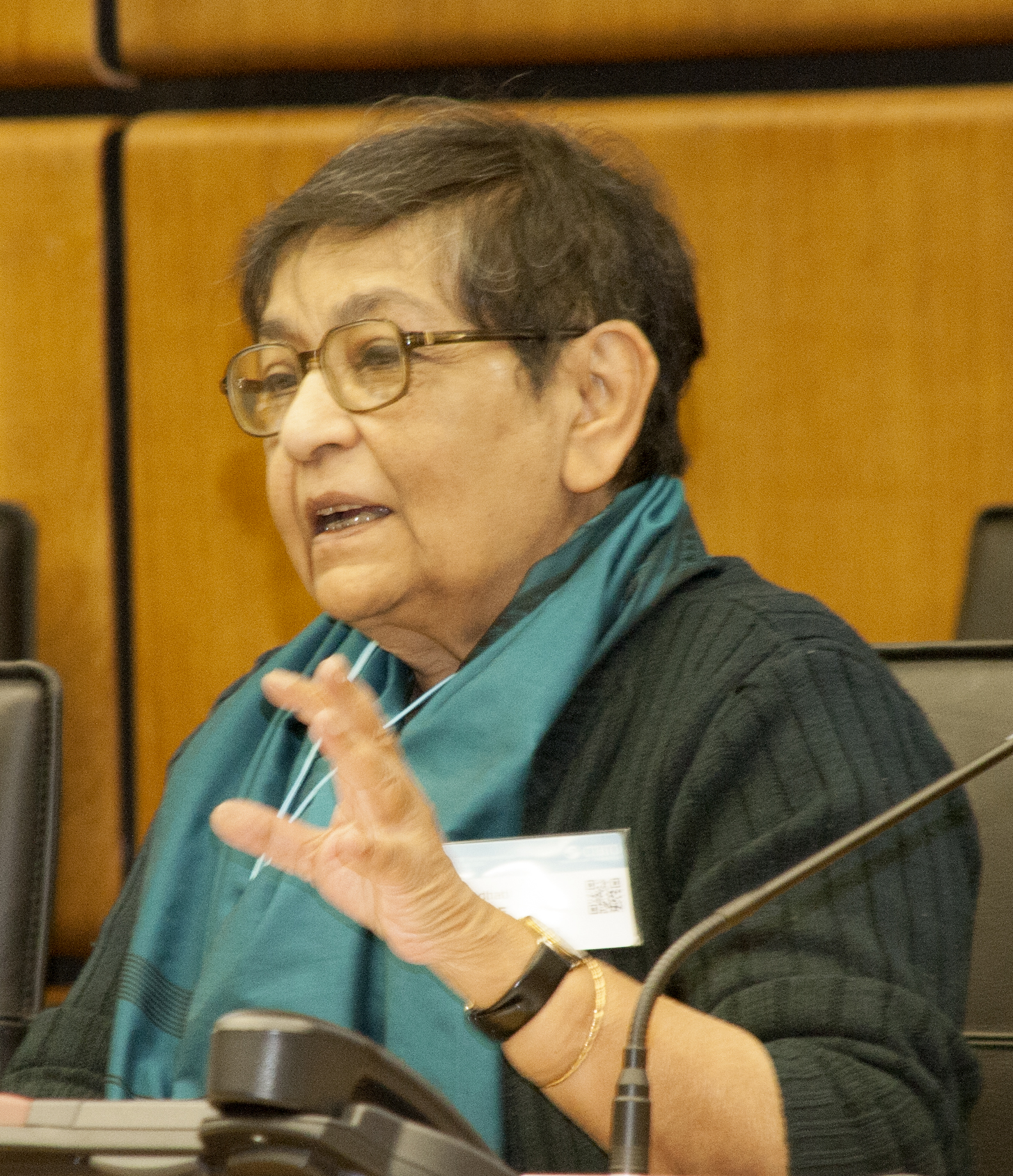 Ambassador Arundhati Ghose was the Head of the Indian Delegation at the CTBT negotiations. CTBT Diplomacy and Public Policy Course - Panel Discussion: "20 Years On: Reflections on the Negotiations of the CTBT" - 15 July 2013 - Vienna International Centre